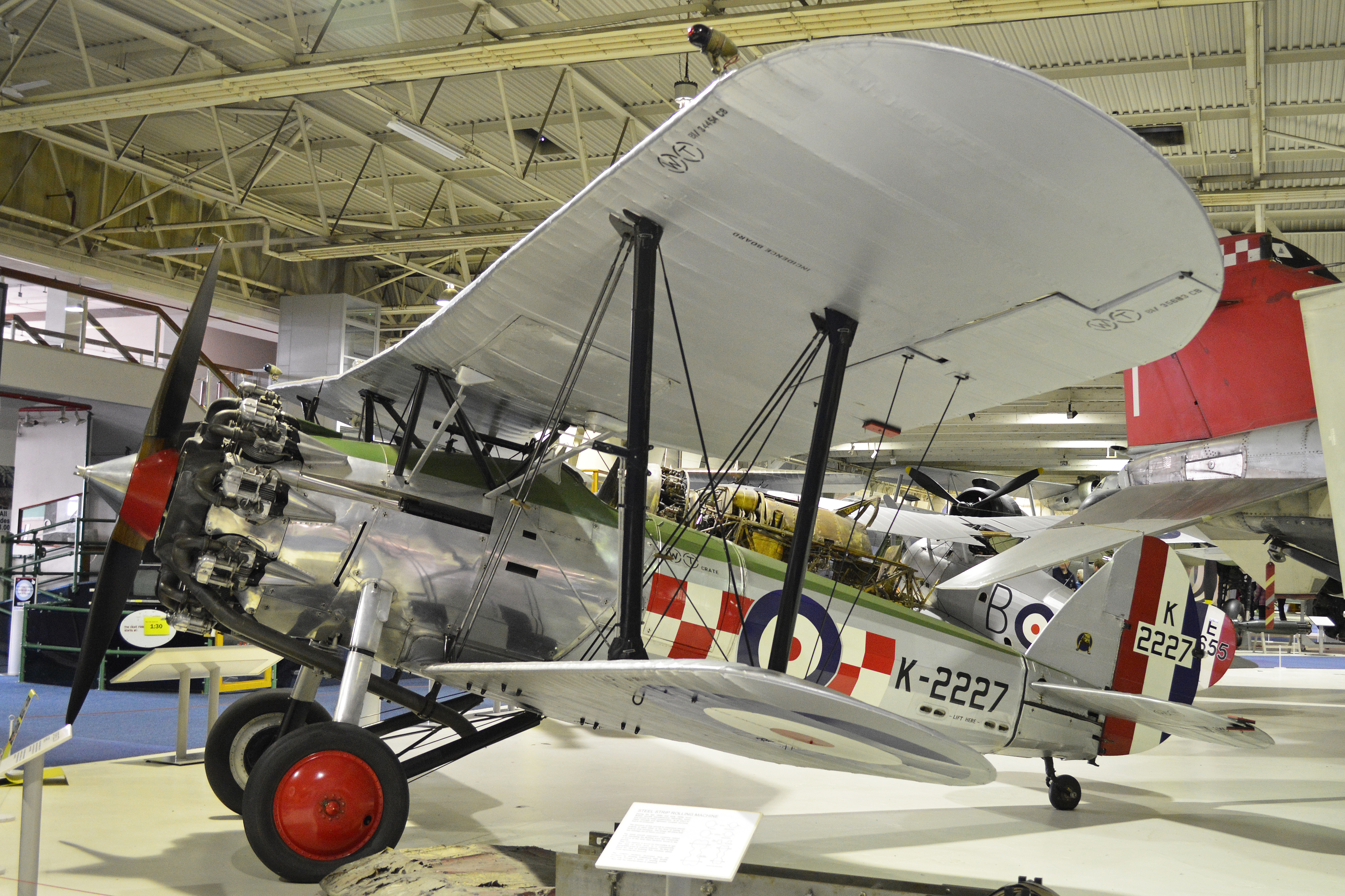 c/n 7446. Built 1930 and registered ‘G-ABBB’ as a company demonstrator. It was also used for some development work, and was eventually grounded in 1936. In 1938 it was gifted to the Science Museum and in early 1939 went on display at South Kensington, London. During WW2 it was removed for safety (to avoid bomb damage) and was stored. Then, in 1955, it was used for static scenes in the ‘Reach for the Sky’ film, marked falsely as ‘K2496’. A restoration to fly was commenced in 1957, with the first flight being in June 1961. At this time it was painted in 56sqn markings as ‘K2227’. It then made several air display appearances over the next three years. On 13th September 1964 it crashed following an engine failure at low level during the Farnborough SBAC show. The pilot escaped with minor injuries, but the aeroplane was completely wrecked. Luckily there was no fire. The accident was investigated by the Accident Investigation Branch (who are conveniently based at Farnborough), after which the remains were dumped behind the AIB hangar. Various parts were salvaged and the remains became very widely spread. In 1992 the RAF Museum gathered all available Bulldog parts together and in 1994 SkySport won the contract for rebuilding the airframe for static display. More original parts were found, and eventually the only major section which had to be entirely new-build was the rear fuselage. Overall the aeroplane is believed to be about 50% original. It was returned to the 56sqn markings it carried when it last flew, again carrying the serial ‘K2227’. The stunning completed aeroplane went on display at Hendon in March 1999, in the Historic Main Hangars where it remains today. RAF Museum, Hendon, London, UK. 22-3-2015